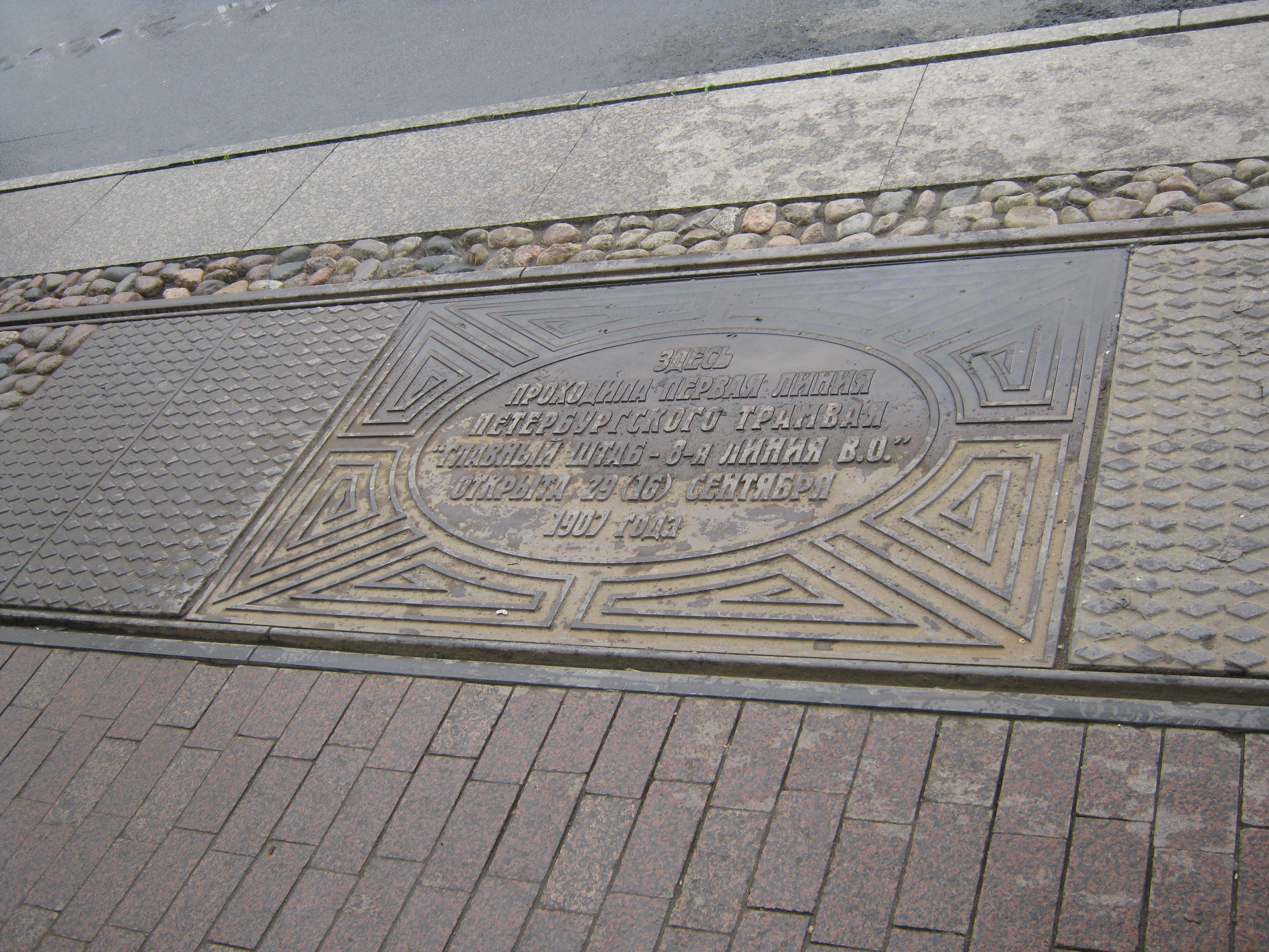 Saint Petersburg (Russia), Russian Admiralty, Day of city of Saint Petersburg